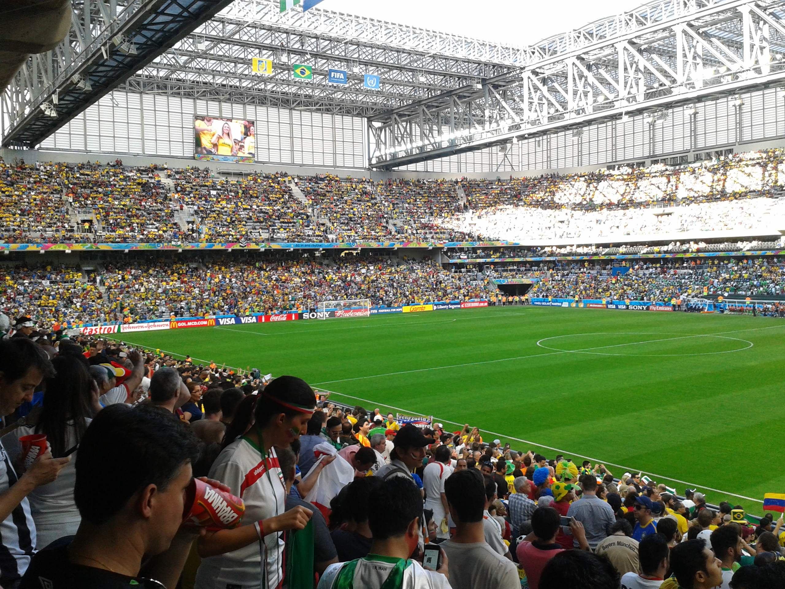 Iran and Nigeria match at the FIFA World Cup (2014-06-16)